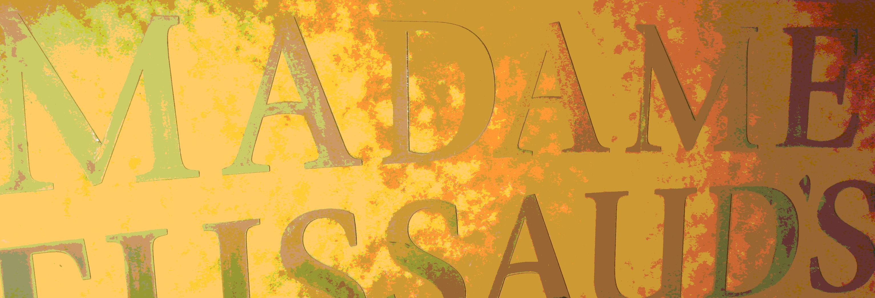 I took this picture on the first set of stairs inside London's Madame Tussauds